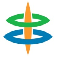 Kushimoto Wakayama chapter